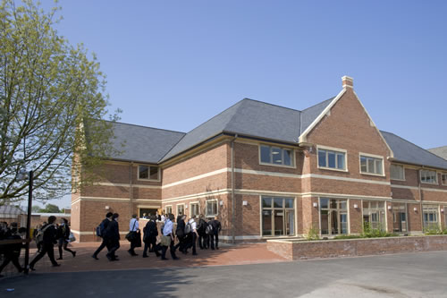 Stockport Grammar School Library and Learning Resource Centre, built in 2004.